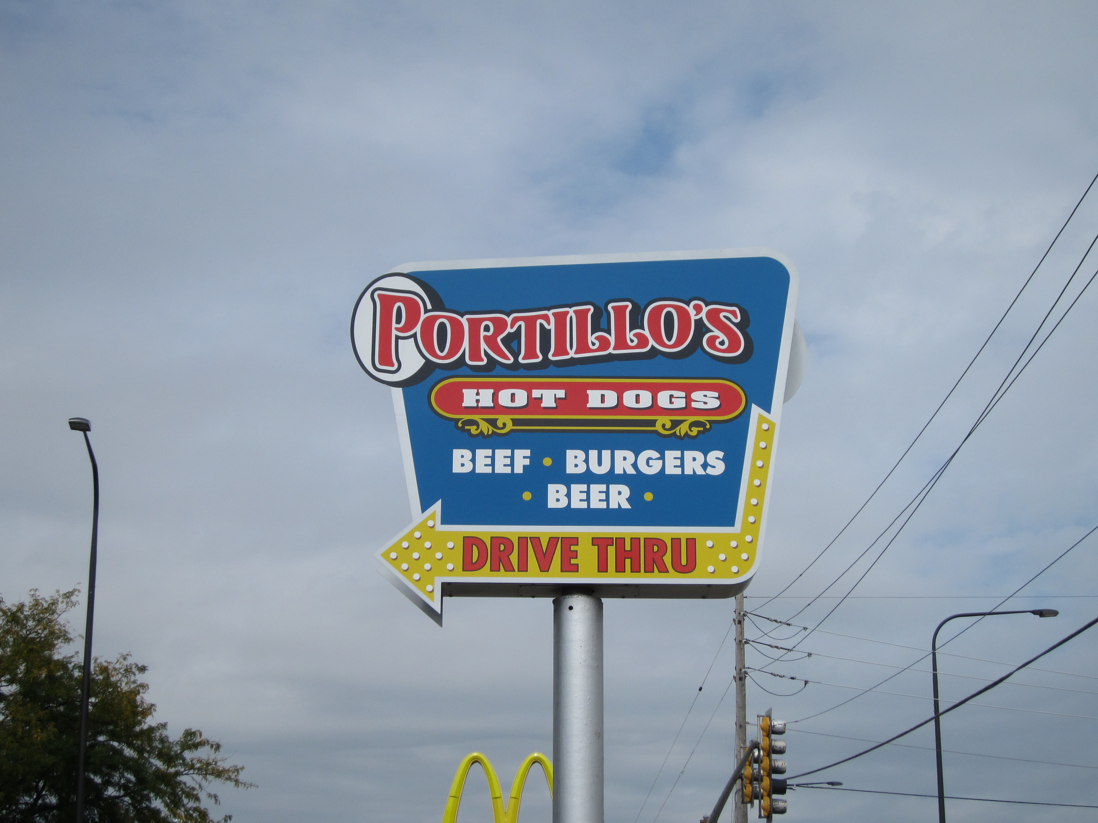 Sign at Portillo's Hot Dogs, 1500 Busse Highway, Elk Grove Village, Illinois.